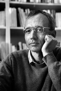 Daniel de Roulet